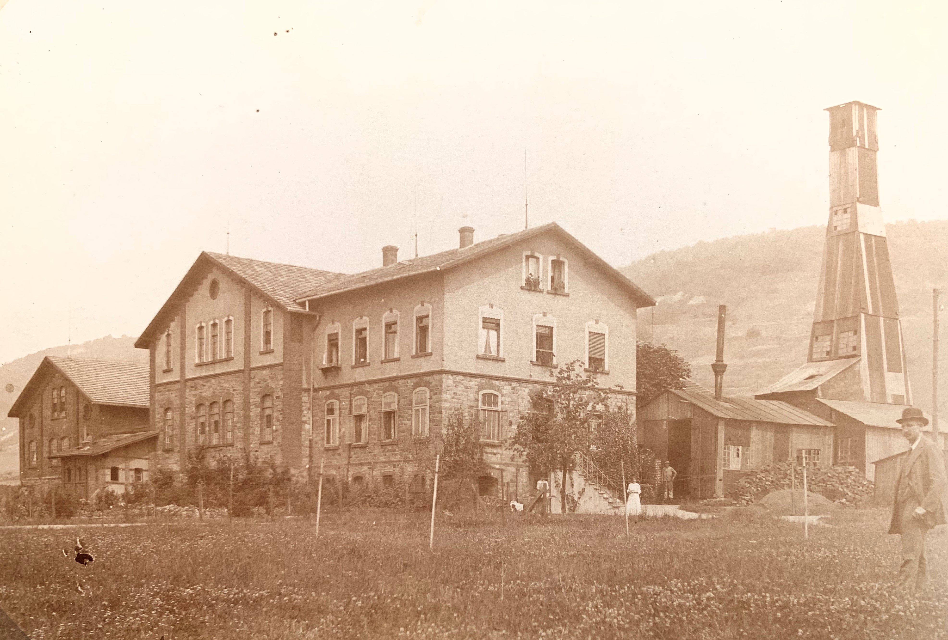 Early photography of the source of Arienheller